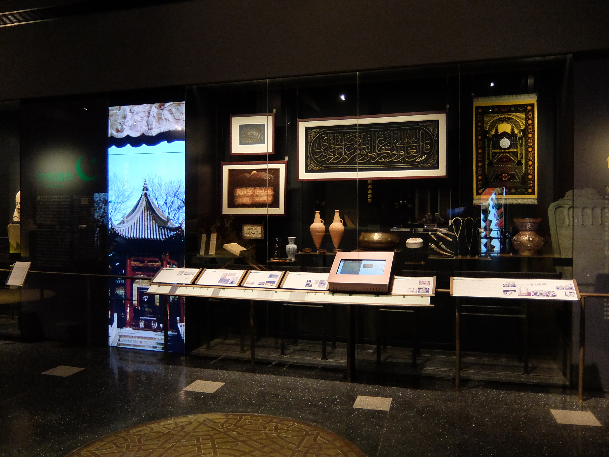 Museum of World Religions, Yonghe, New Taipei, Taiwan